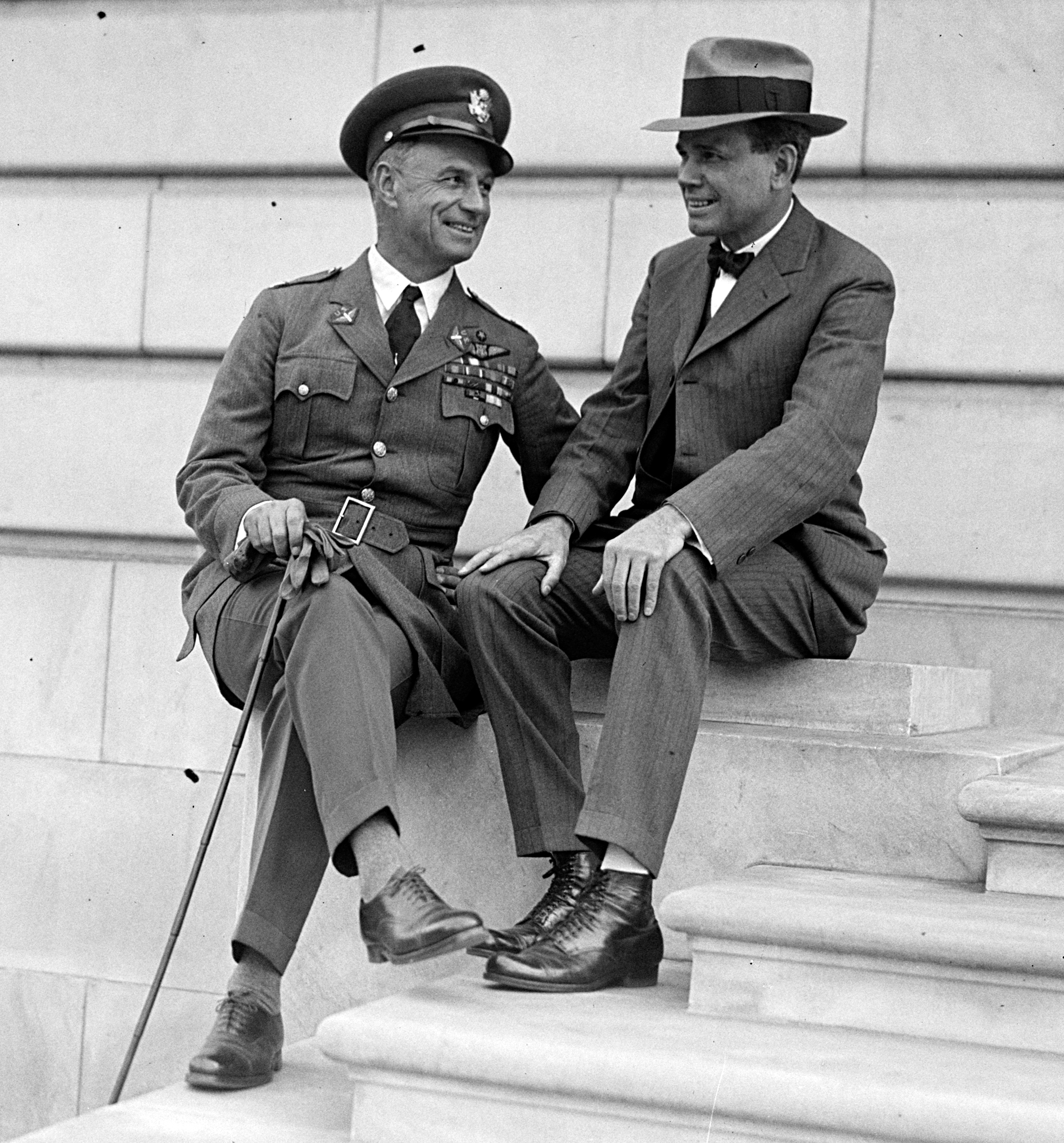 Frank R. Reid (right), US Representative from Illinois, with General Billy Mitchell